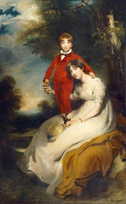 Portrait of Mrs Charles Thellusson, née Sabine Robarts (1775–1814), wife of Charles Thelluson MP, and her son Charles.